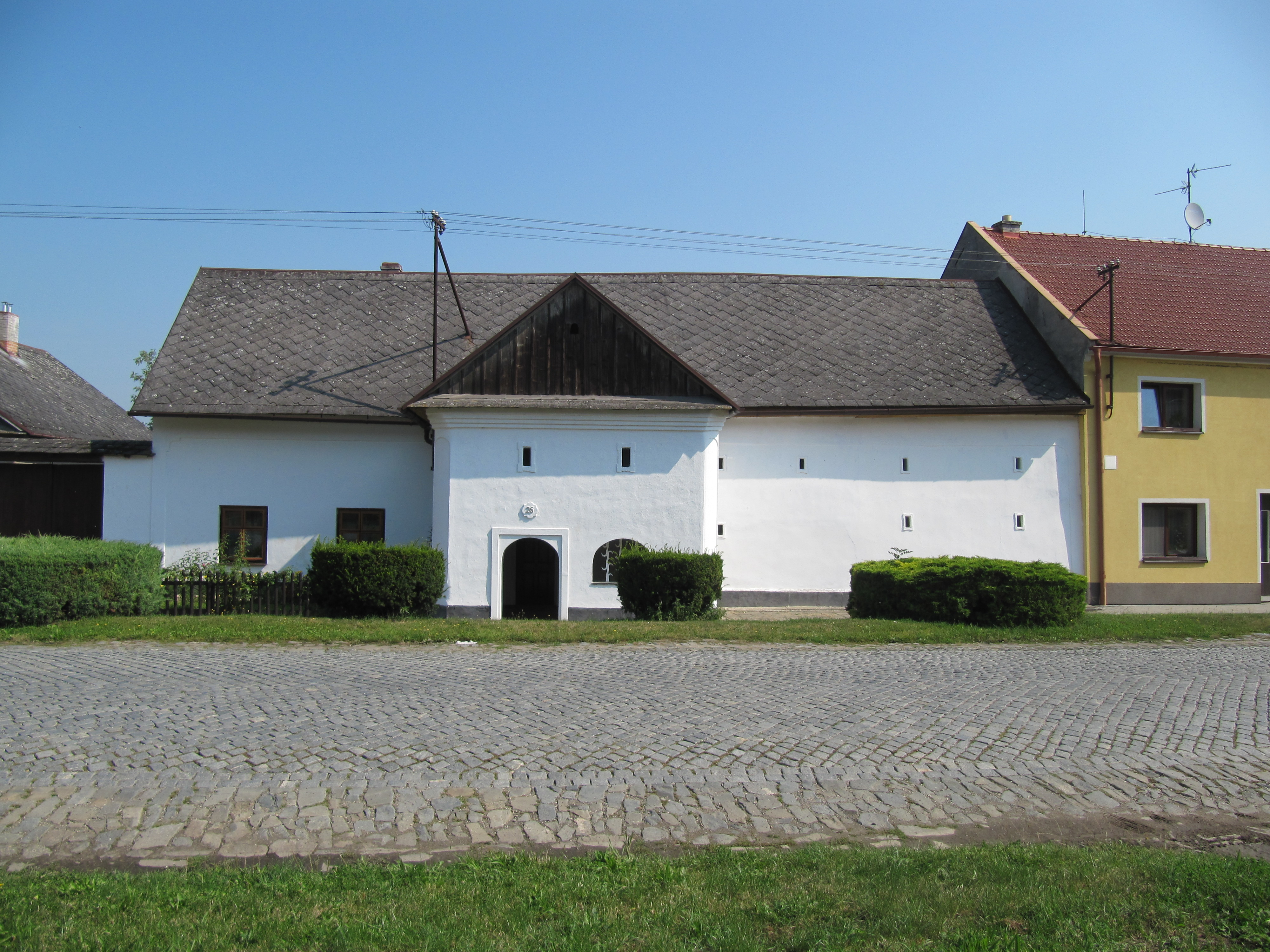 Příkazy in Olomouc District, Czech Republic. Rural homestead No. 26 with a typical porch of Haná.